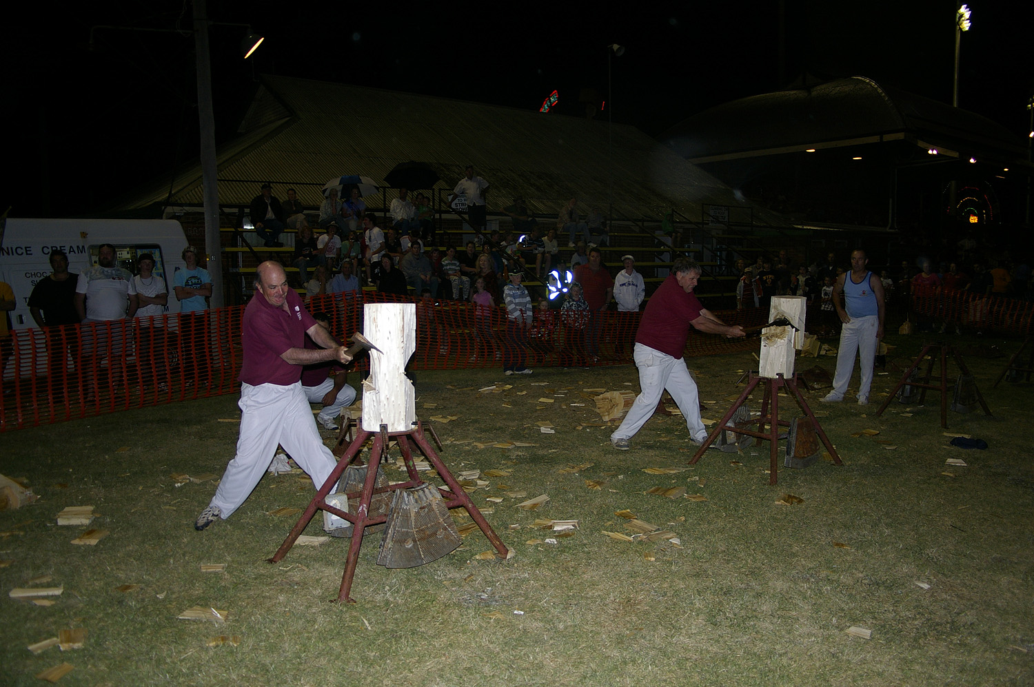 Wood chopping at the 144th Wagga Wagga Show.